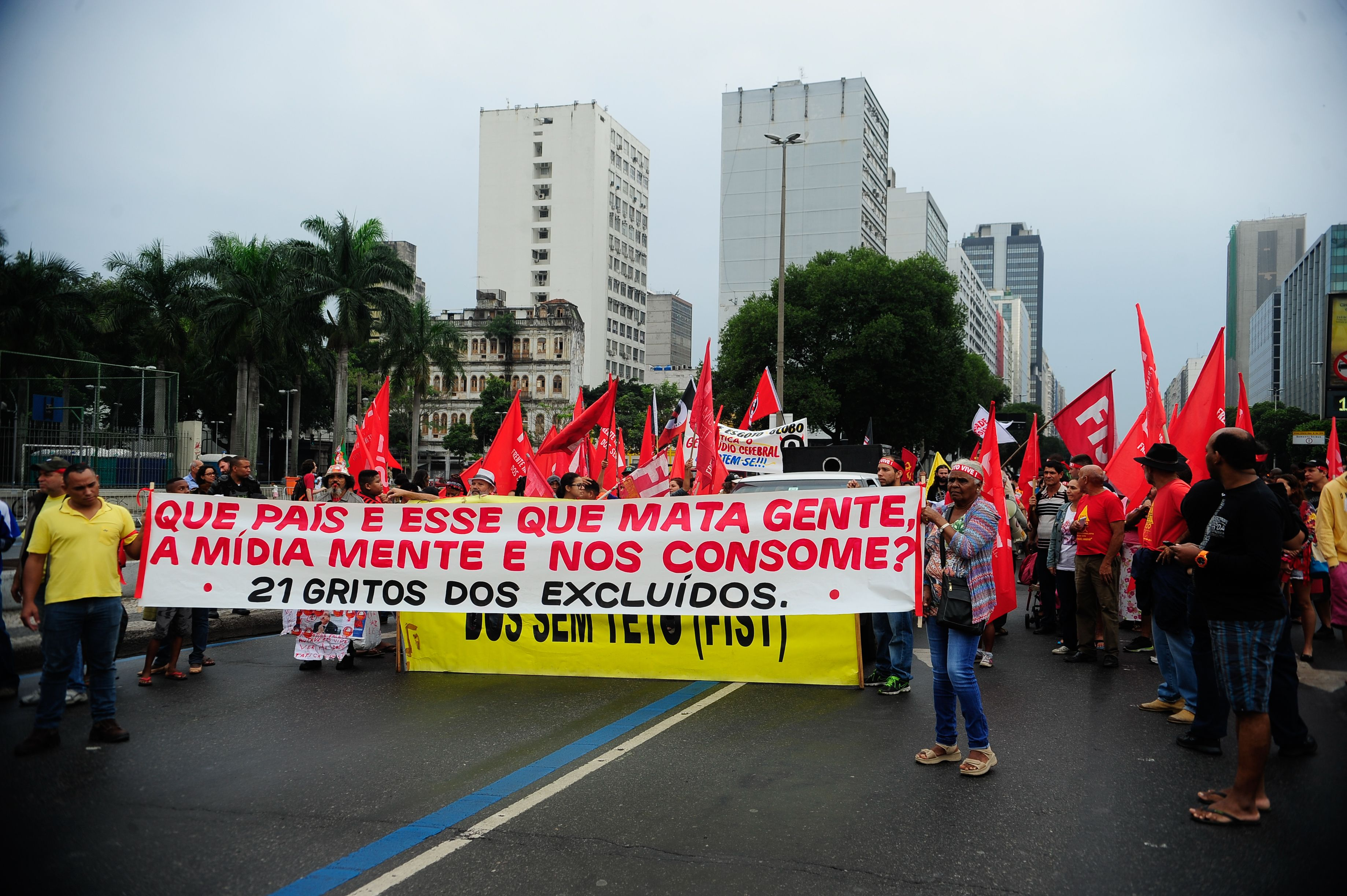 Photo by Fernando Frazão/Agência Brasil CCBY3.0